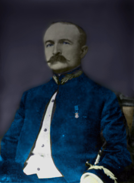 Philippe Bunau-Varilla, as minister plenipotentiary of the Panama Republic